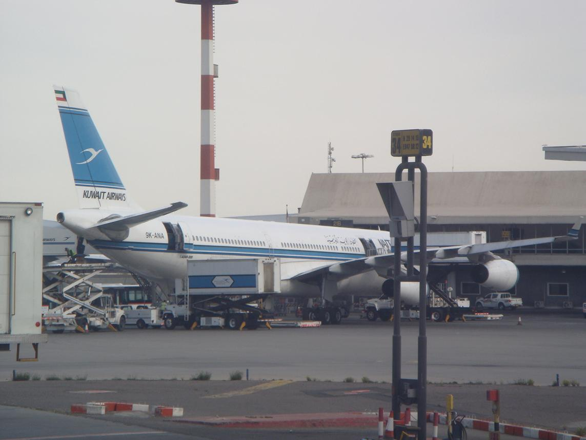 Its a Kuwait Airways A340-300 parked at a gate at Kuwait airport being prepared for boarding to Frankfurt.